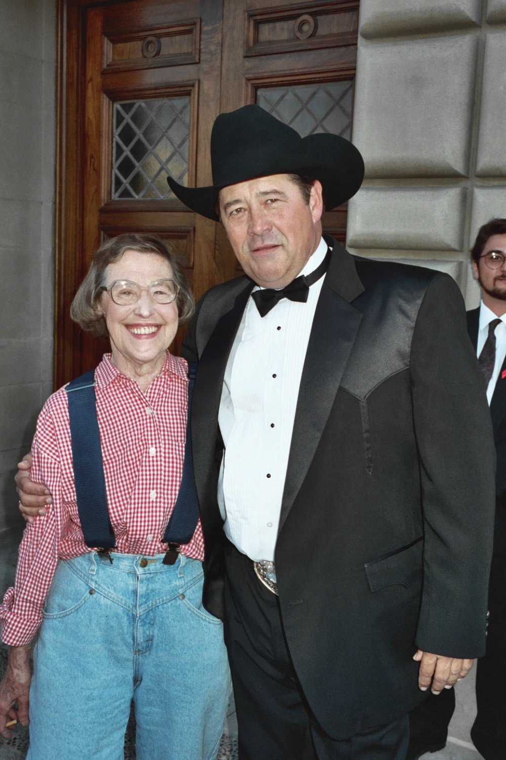 1993 Emmy Awards NOTE: Permission granted to copy, publish, broadcast or post any of my photos, but please credit "photo by Alan Light" if you can. Thanks. Scanned from the original 35MM film negative.